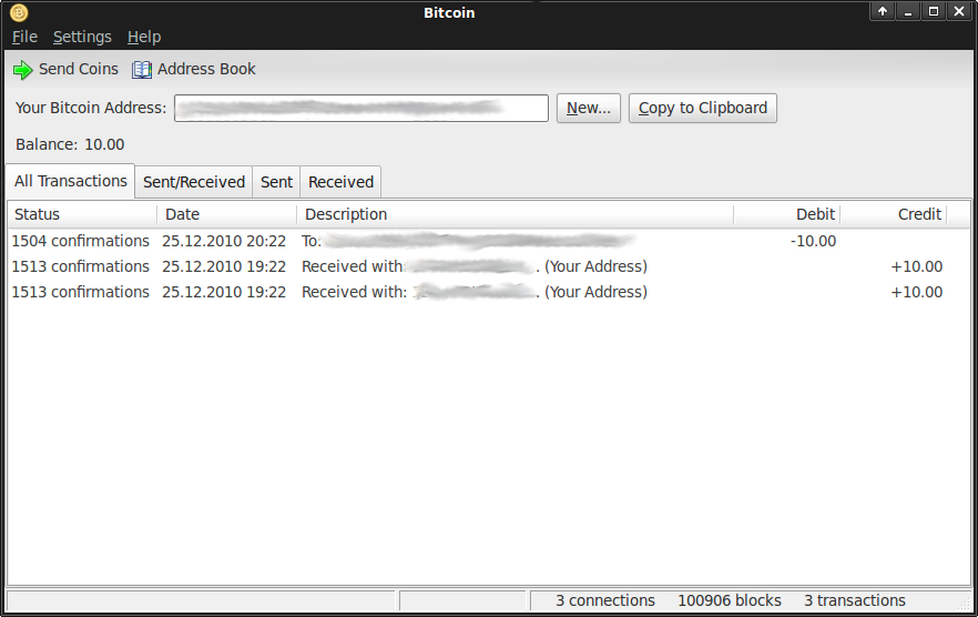 Screenshot of the Bitcoin Software under Ubuntu 10.04